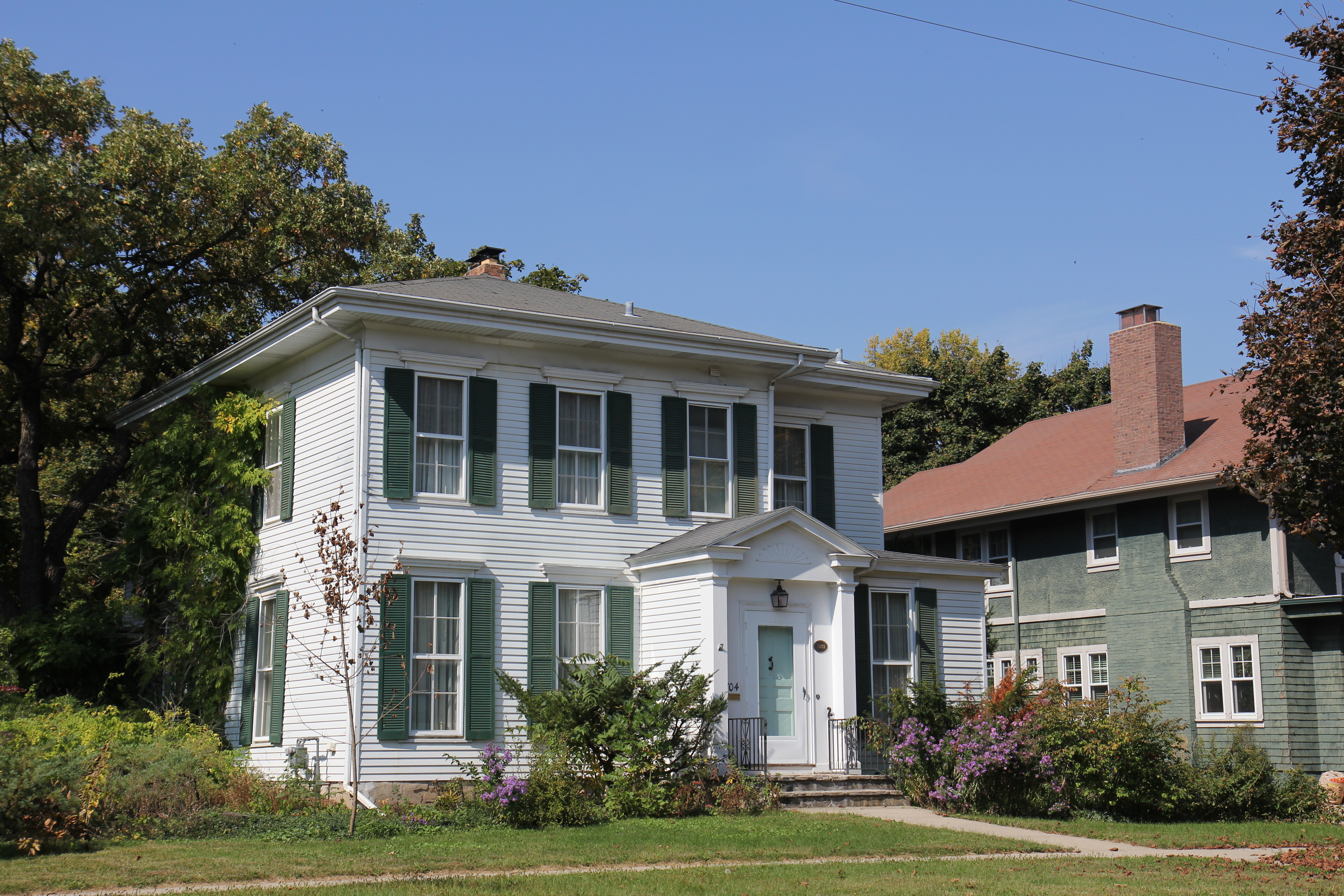 704 Park St. within the Near East Side Historic District. The district is roughly bounded by Pleasant, Clary Sts., Wisconsin and E. Grand Aves. in Beloit